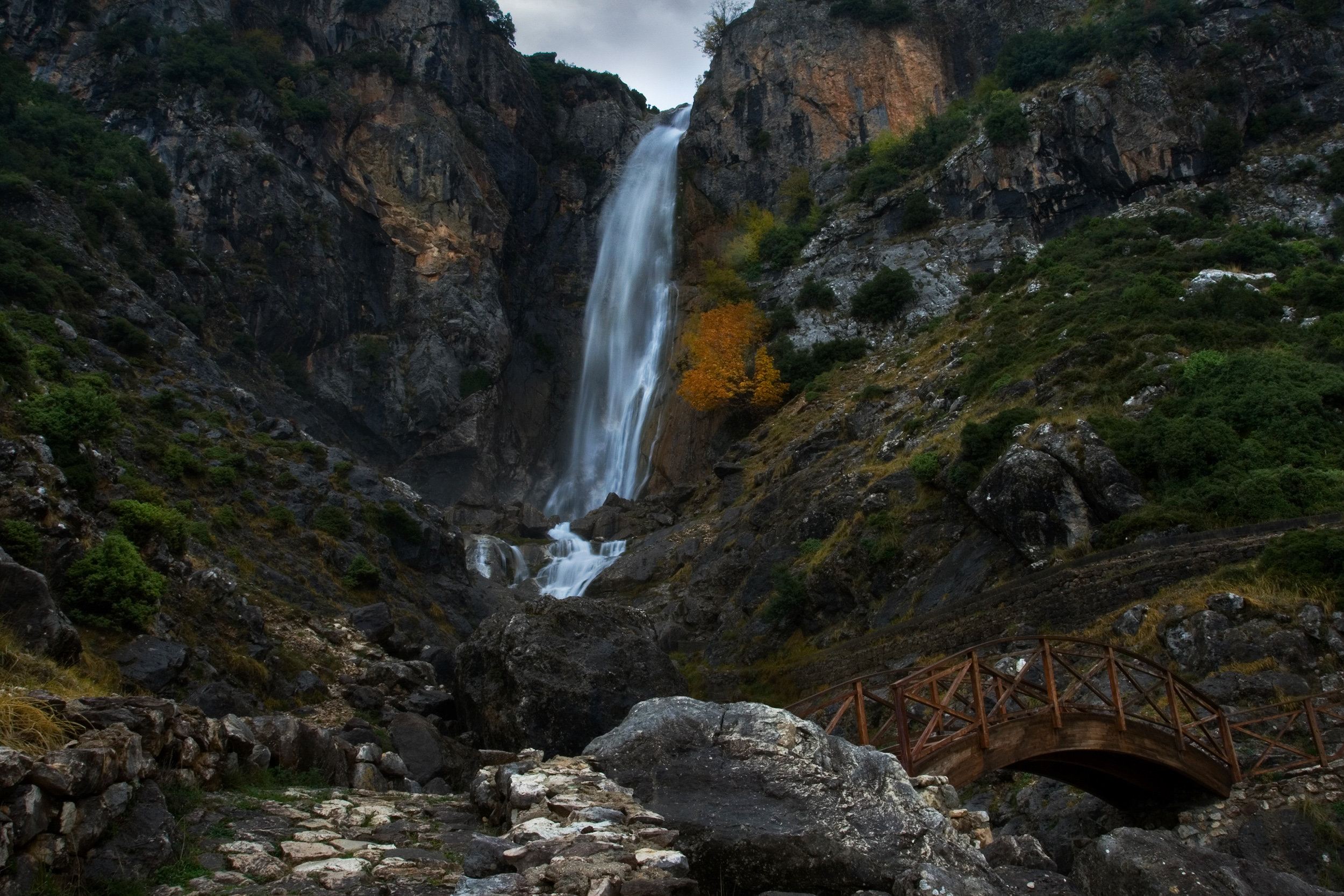 This is a photography of Natura 2000 protected area with ID GR2110002